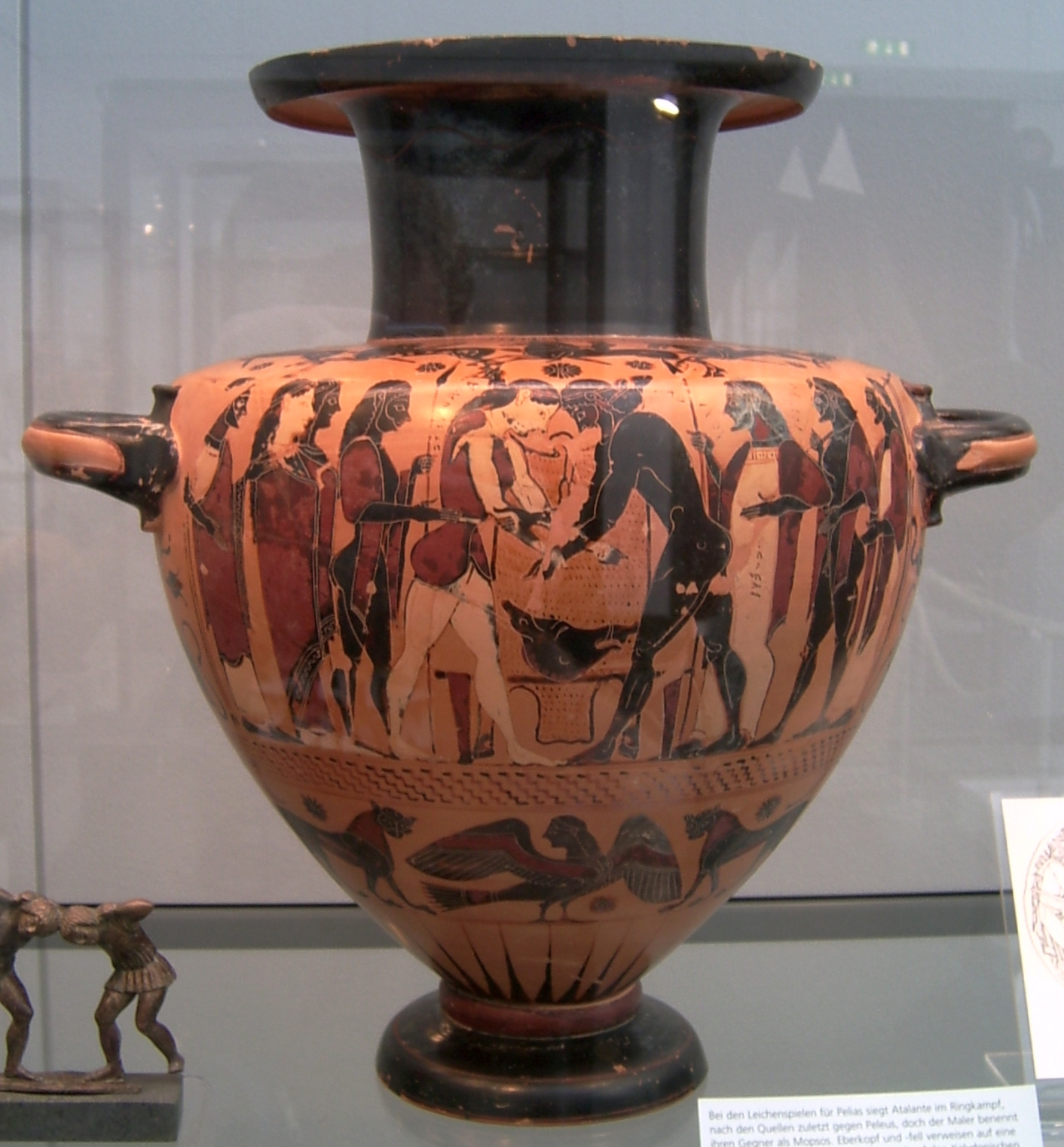 Chalcidian black-figured hydria. Side A: wrestling of Peleus and Atalanta for the funerary games of king Pelias. In background, the prize of the duel: the skin and the head of the Calydonian boar. Side B: Zeus darting its lightning on Typhon. Names inscriptions are written in the alphabet of Chalcis in Euboea. Side A